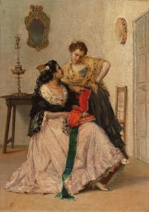 The Red Sash (or Ribbon)